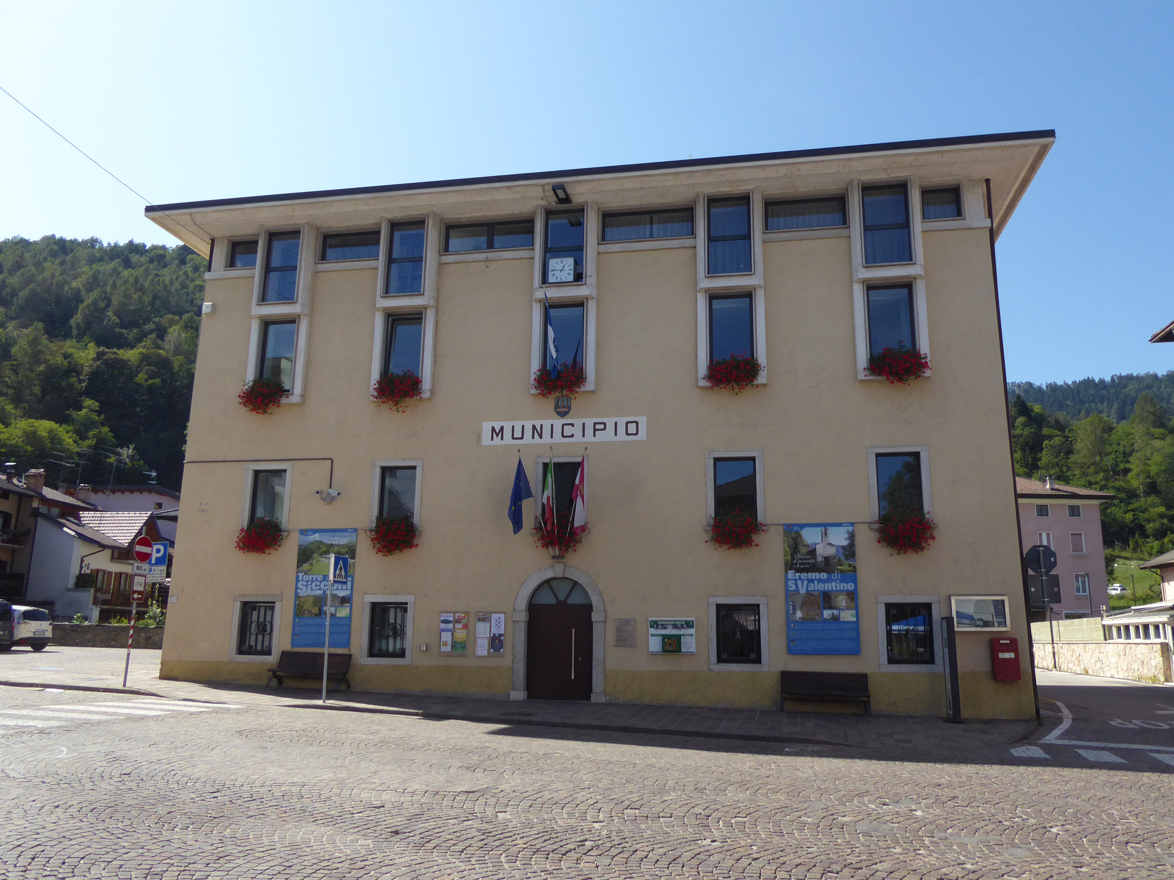 Caldonazzo (Trentino, Italy) - Town hall